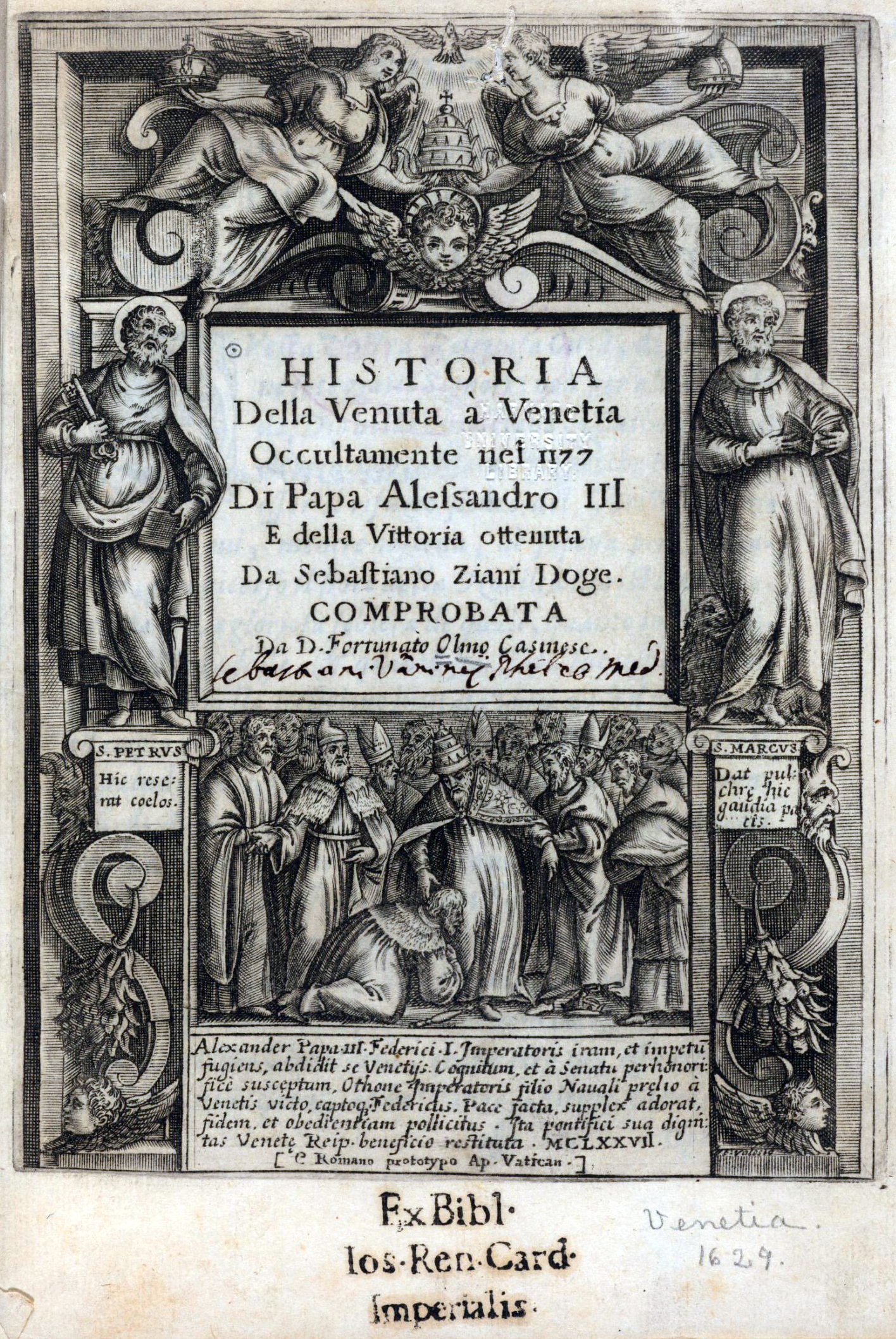 Title page from Historia della venuta à Venetia occultamente nel 117 di papa Alessandro III e della vittoria ottenuta da Sebastiano Ziani, doge, Venetia: 1629, by Fortunato Olmo. Ital 4843.1*, Houghton Library, Harvard University